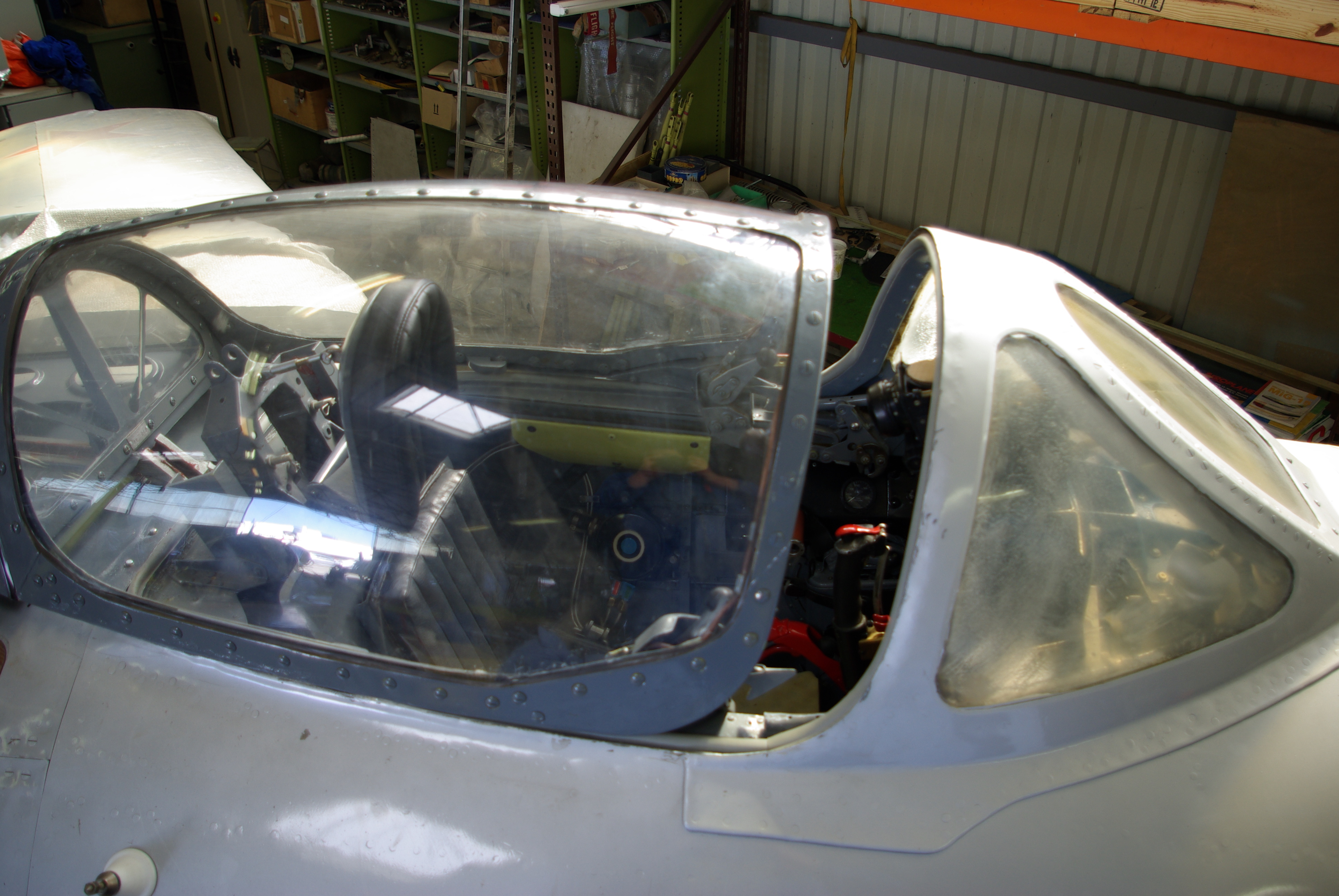 Canopy of a MiG-15 being restored at the Musée des Ailes anciennes (Toulouse, France).